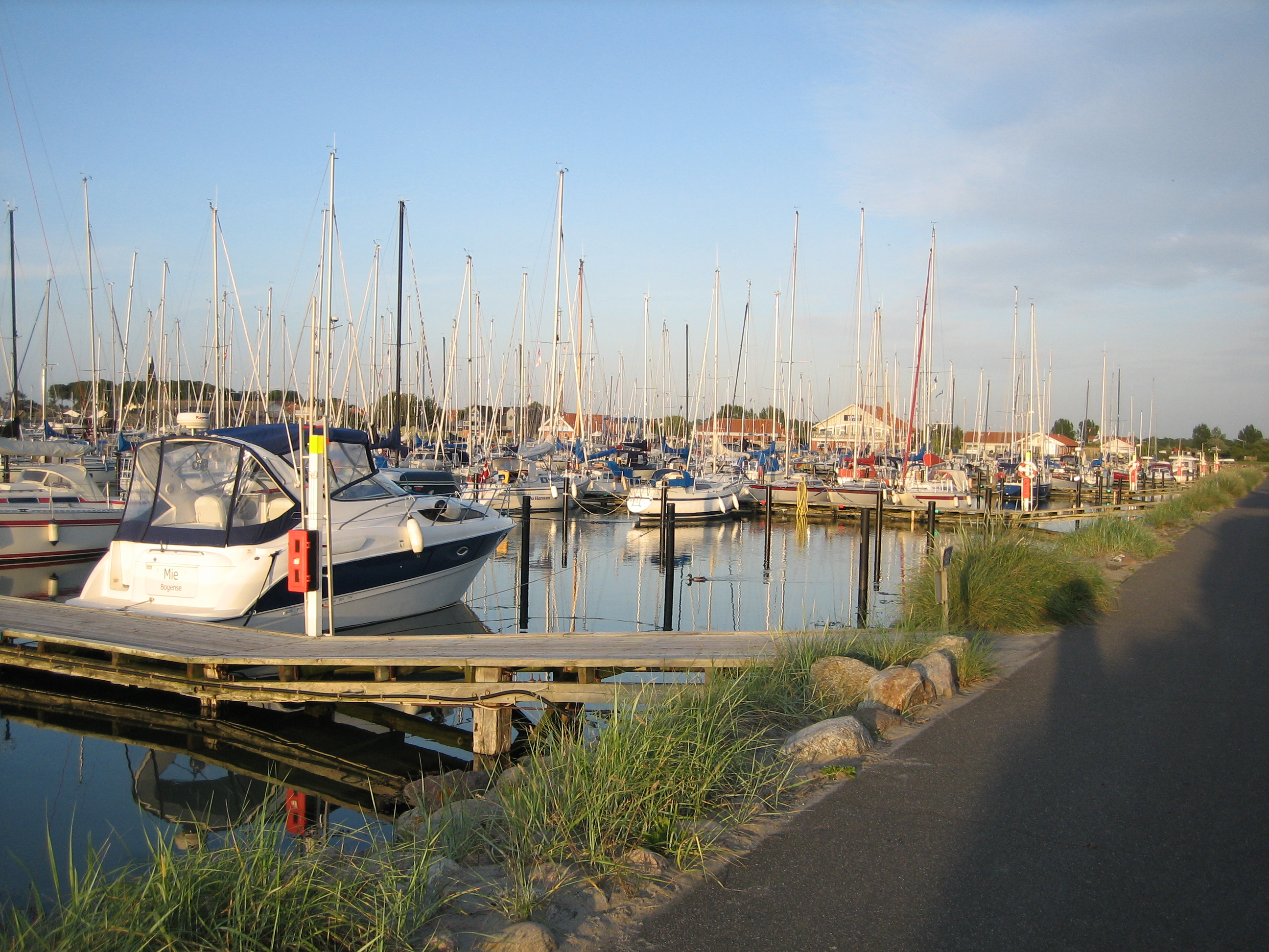 Marina, Bogense on the Danish island of Funen. Uploaded from Flickr